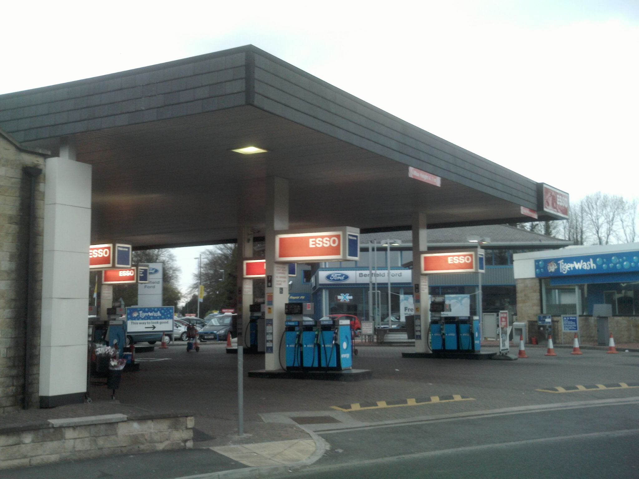 The Esso filling station in Wetherby, West Yorkshire. As seen from York Road (LS22). The station lies on the junction of Deighton Road (LS22), York Road (LS22) and North Street (LS22). Taken on the evening of Sunday the 3rd of April 2010.